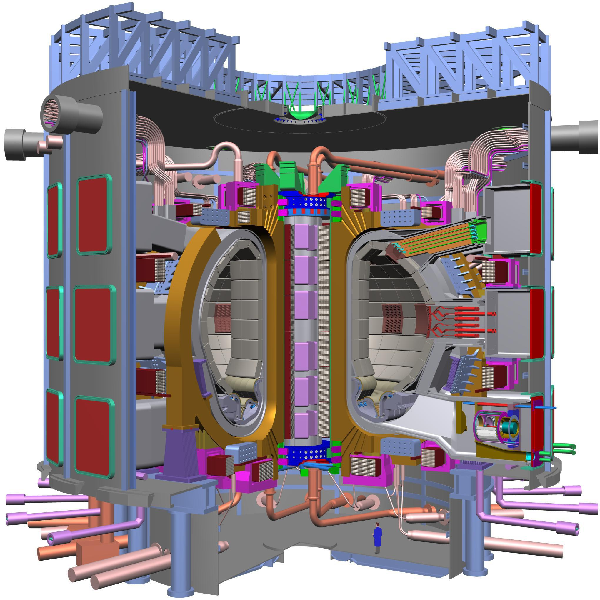 ARTIST'S CONCEPT OF THE INTERNATIONAL THERMONUCLEAR EXPERIMENT REACTOR (ITER). PHYSICISTS FROM THE PRINCETON PLASMA PHYSICS LABORATORY ARE PARTICIPATING IN A WORLD-WIDE COLLABORATION TO DESIGN A MAJOR TOKAMAK FACILITY, THE INTERNATIONAL THERMONUCLEAR EXPERIMENTAL REACTOR (ITER). ITER WILL BE A LARGE INTERNATIONAL FACILITY CAPABLE OF DEMONSTRATING SELF SUSTAINED POWER PRODUCTION IN THE BILLION WATT RANGE AND CAPABLE OF TESTING AND INTEGRATING ESSENTIAL REACTOR COMPONENTS. For more information or additional images, please contact 202-586-5251.